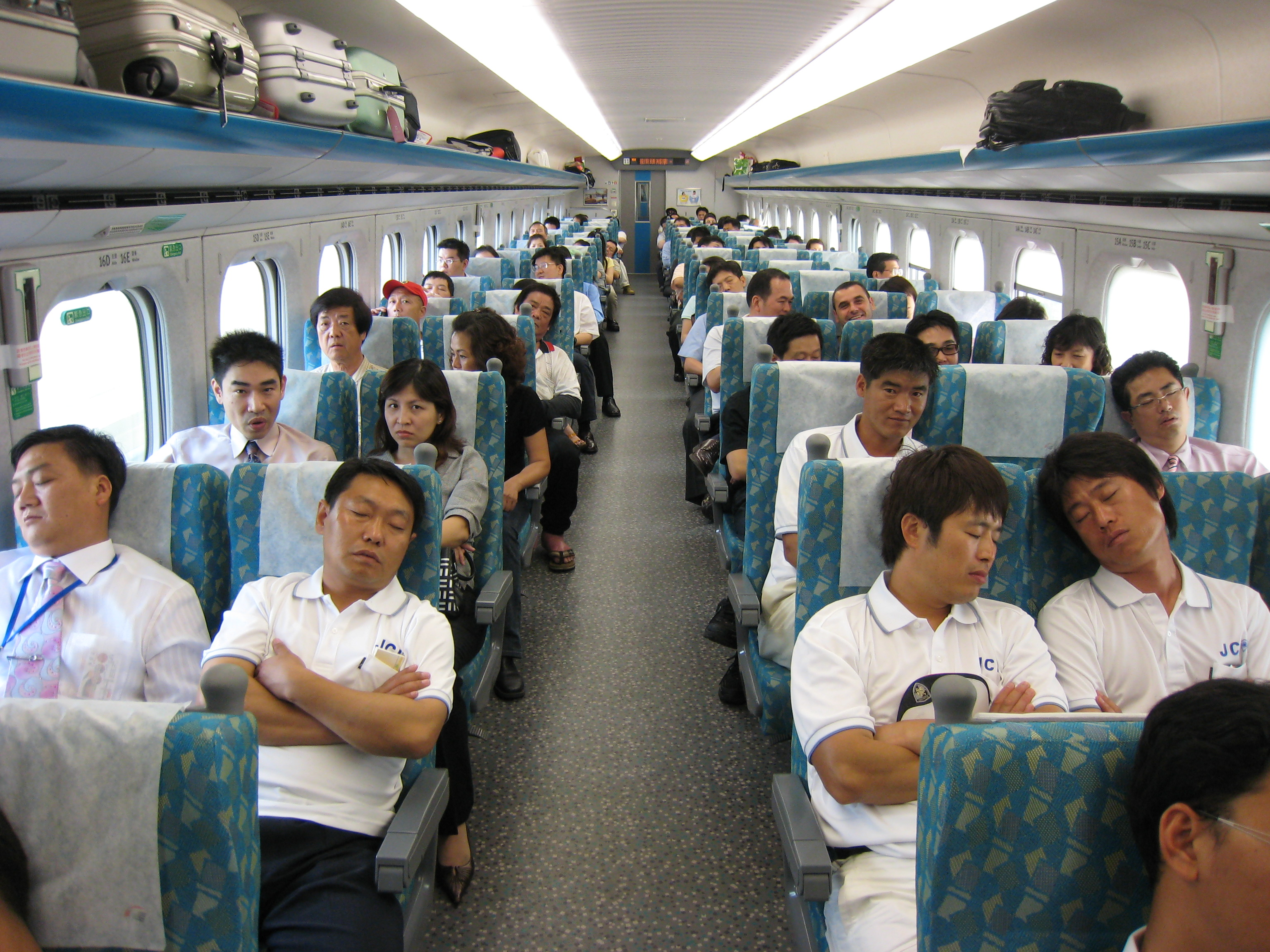 Taiwan High Speed Rail, Train interior